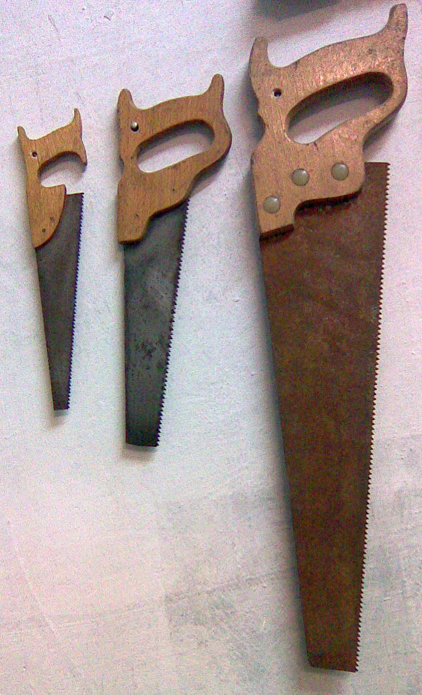 Saws